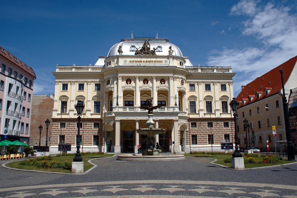 Slovak National Theatre (old building)